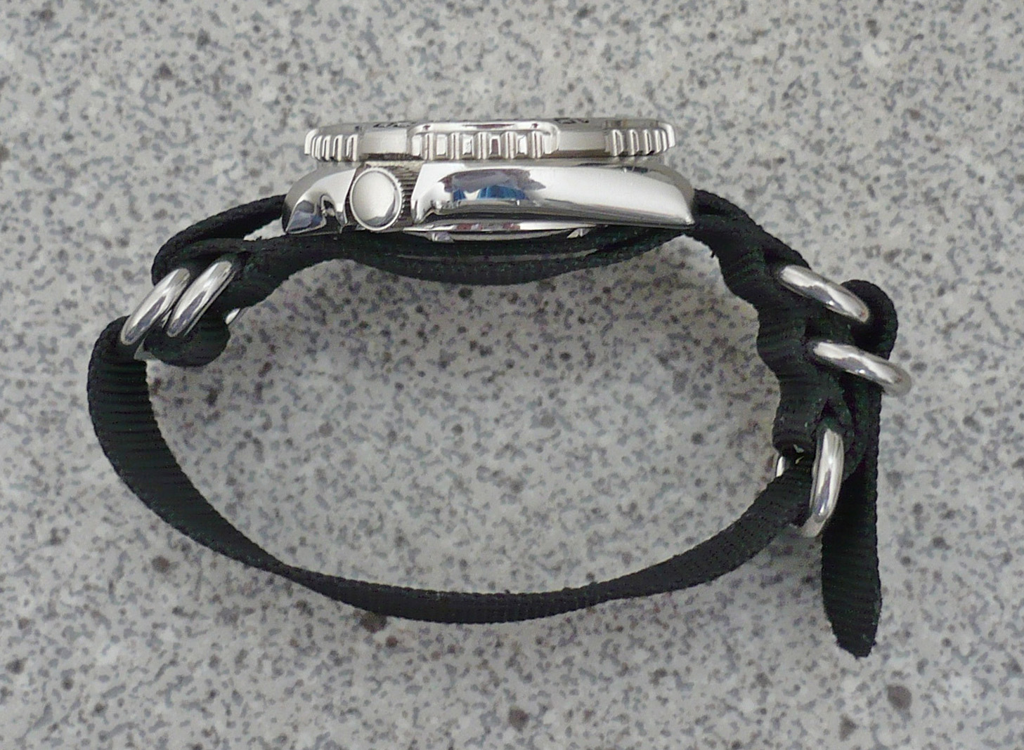 Diving watch on a 4-ring Zulu style strap made of ballistic nylon fabric, derived from the UK MOD's "Nato" strap design. These ballistic nylon fabric straps slide under the watch case through both springbars and are used to minimize the chance of losing the watch due to a springbar failure.